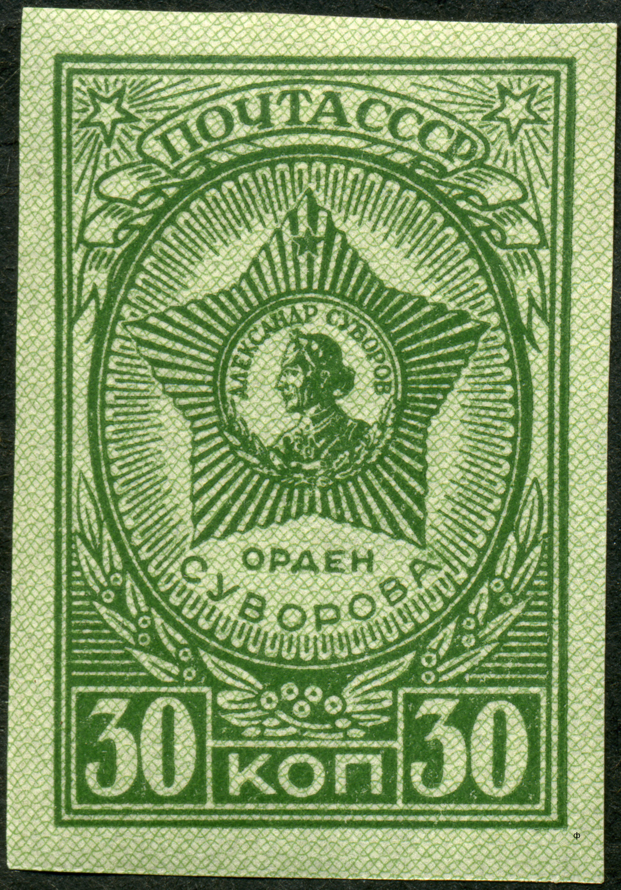 A USSR stamp, Awards of the Soviet Union